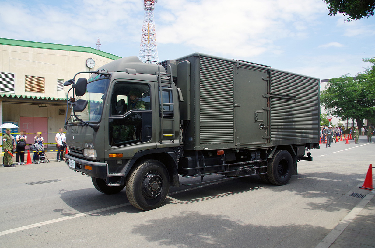 Refrigerator vehicle (based on commercial truck). 19 May. 2019 at Camp Nerima, own work.